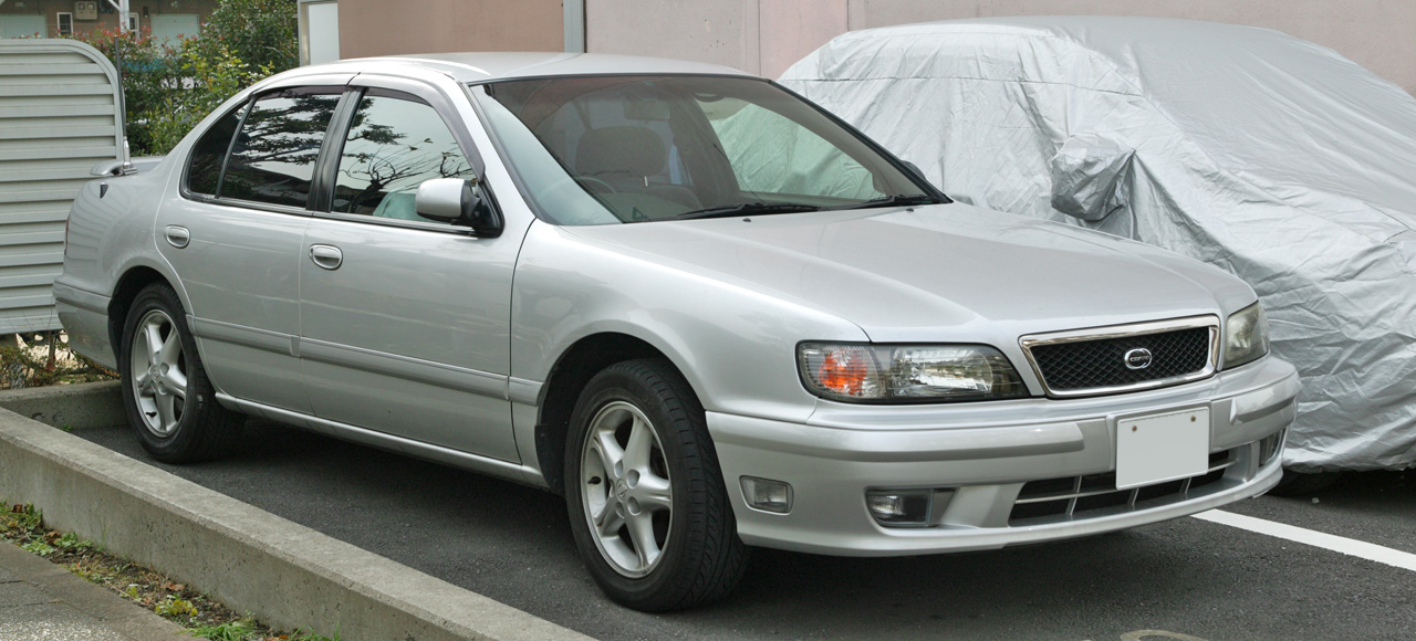 Nissan Cefiro